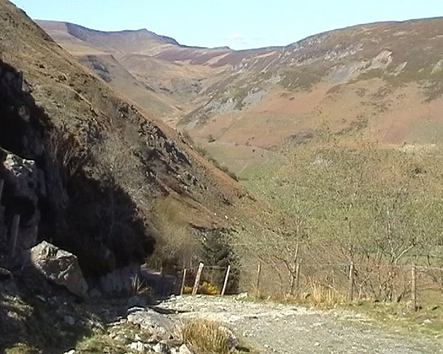 Rocky Hillside of the Afon Rhaeadr Valley The rocky outcrops on the hillside above the Afon Rhaeadr valley. The photo is taken from the miners' track leading up the hill and shows the rocks which would have been cut out to make the track. Cadair Berwyn can be seen on the horizon.